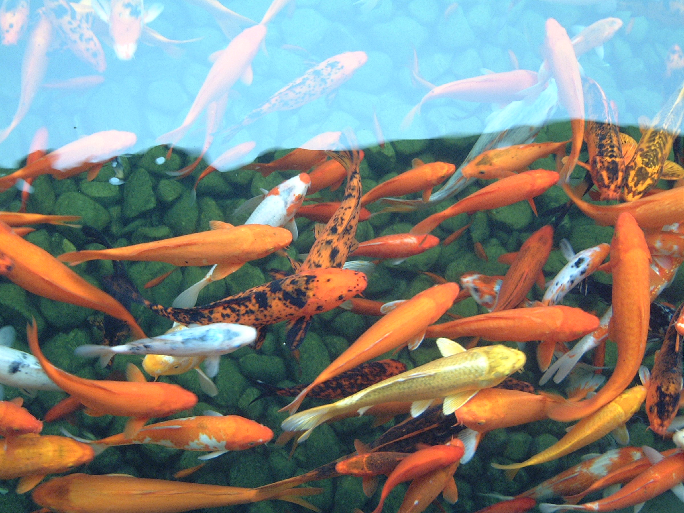 Fish Pond